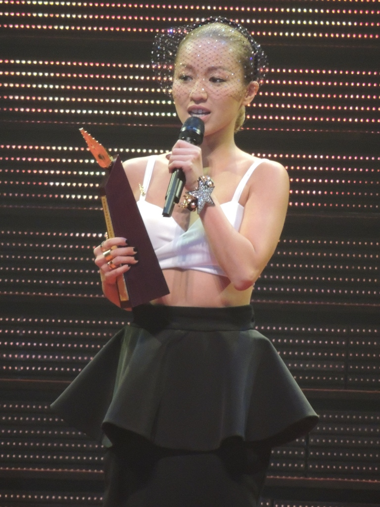 Ultimate Song Chart Awards 2013